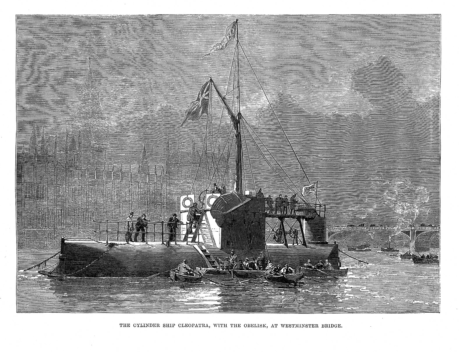 February 18: 'Cylindar ship Cleopatra, with obelisk, at Westminster Bridge' General Collections